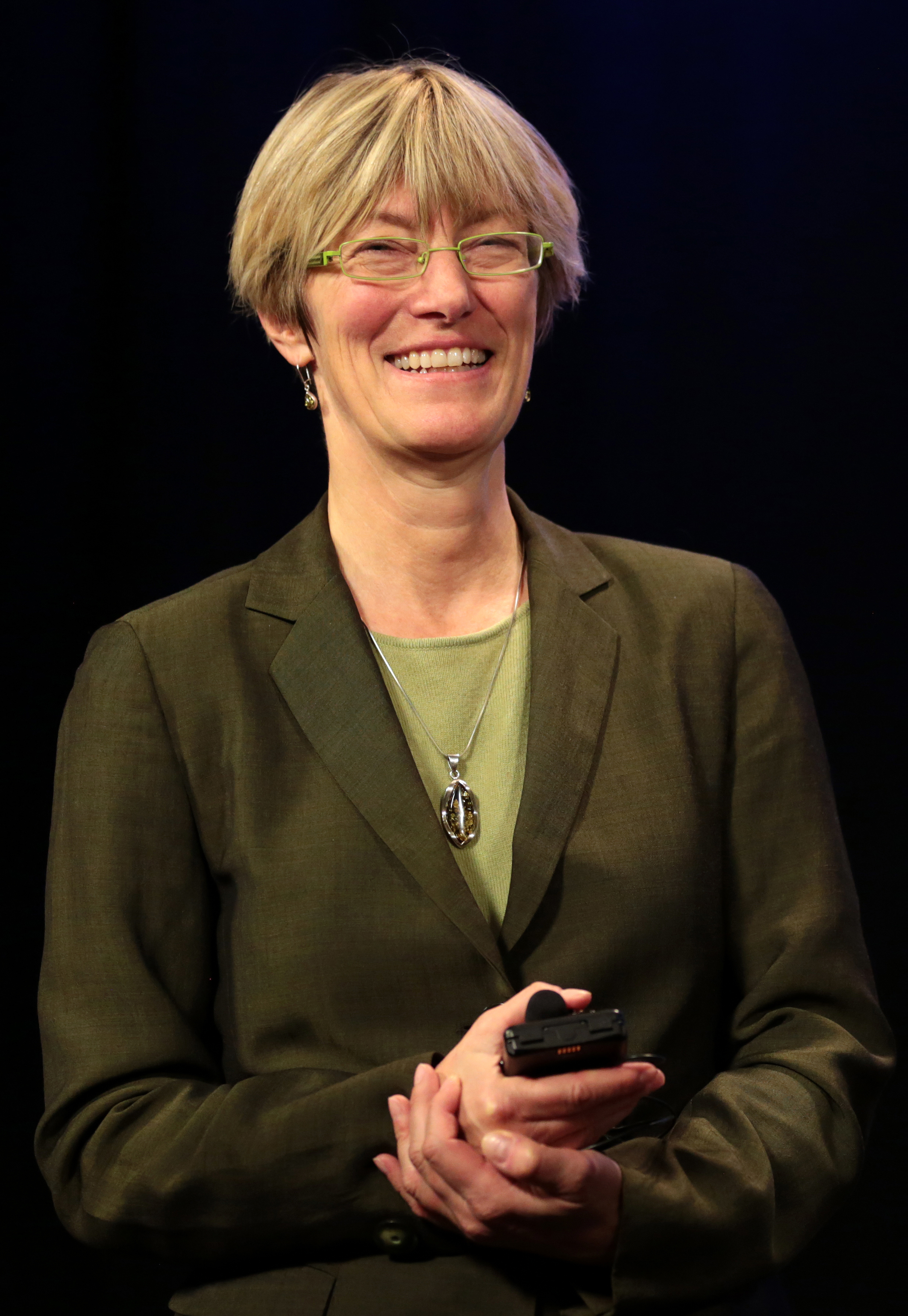 Allison Stanger speaking at an event in Phoenix, Arizona.